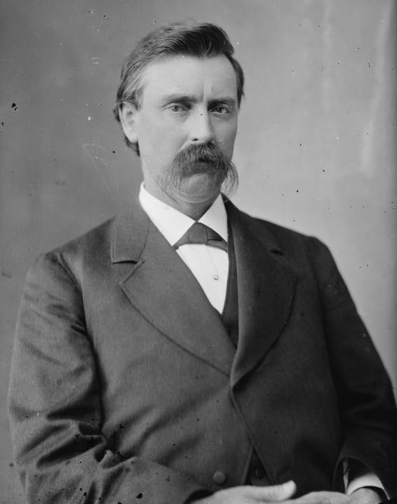 Voorhis, Hon. Chas. H. Of N.J.